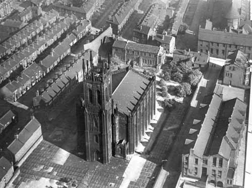 Former Church of St Mary, Quarry Hill, Leeds, West Yorkshire, England. It was completed in 1826, and demolished in 1979. It was subject to repairs and alterations in 1850, when the font, reredos and pulpit were carved by Robert Mawer. As of 2016 the location of these artefacts is unknown.